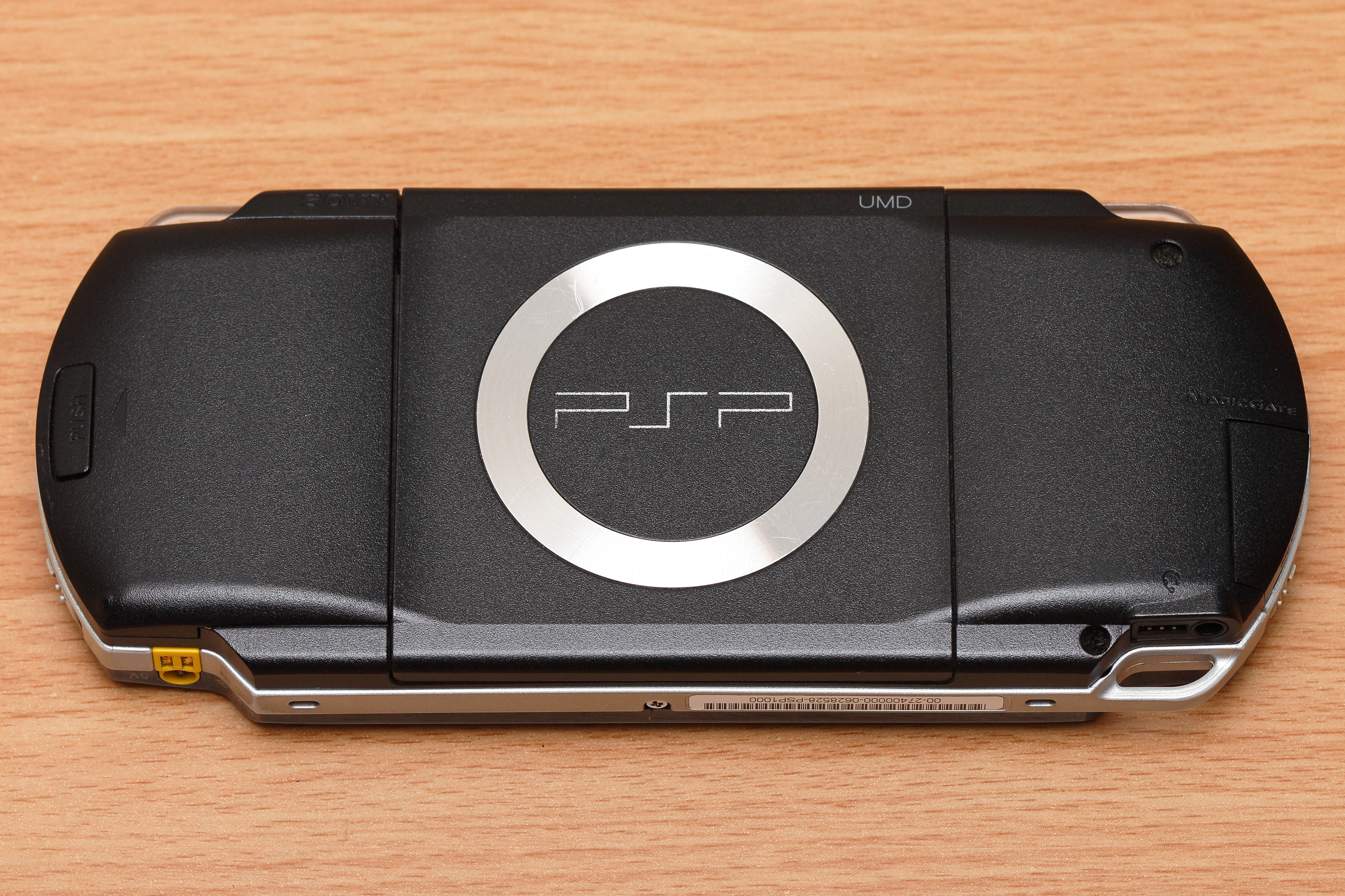 中文（台灣）: PlayStation Portable PSP-1000背面。